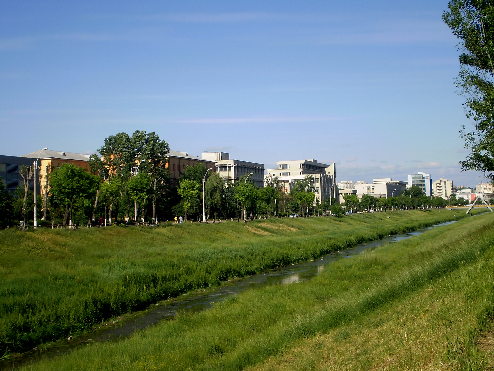 Iaşi , Dimitrie Mangeron Boulevard, headquarter of faculties of the Technical University „Gheorghe Asachi“ , Iaşi , Romania